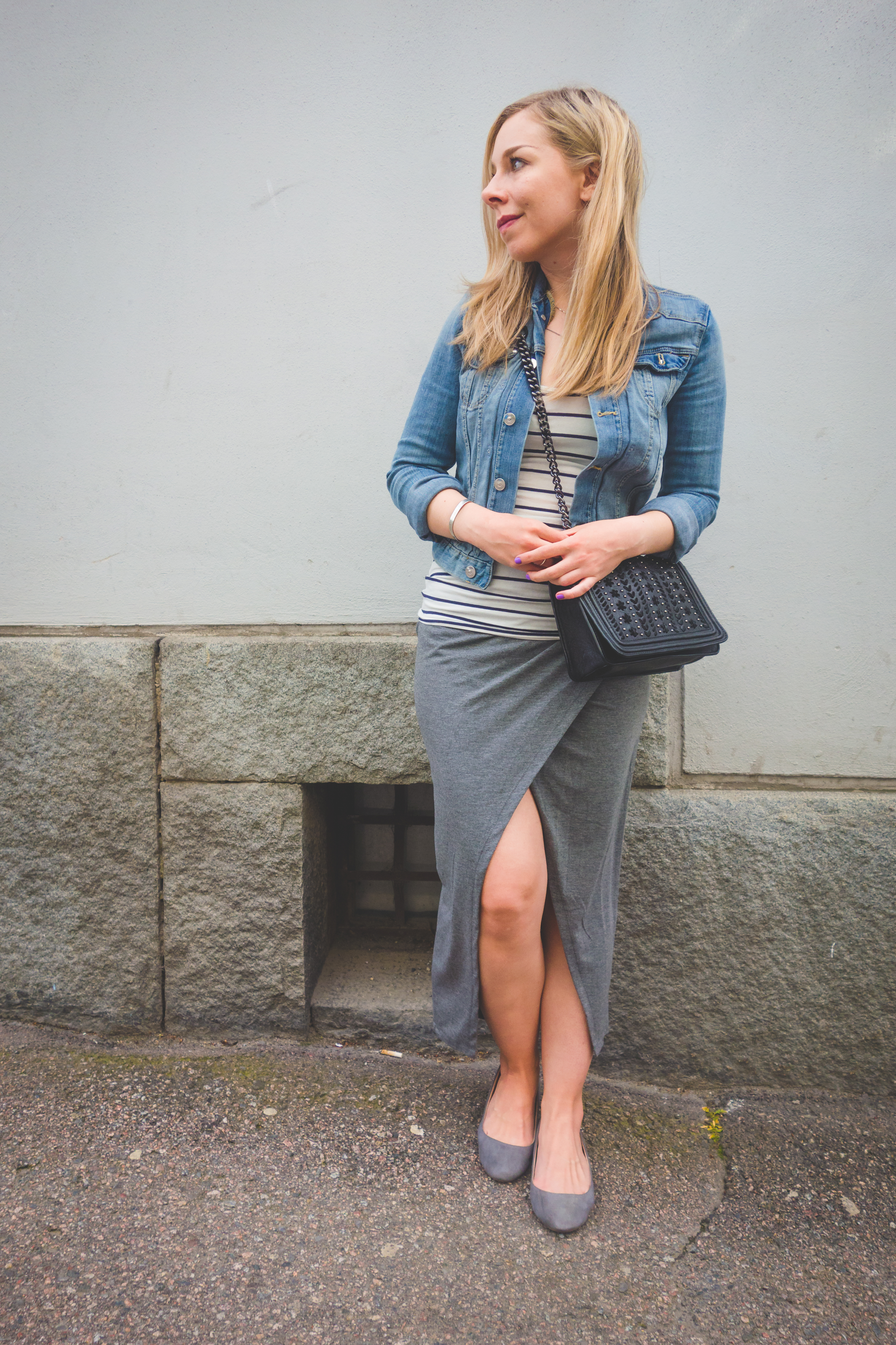 A young woman with blond hair in a marinière shirt, denim jacket, and a gray wrap skirt, on the sidewalk.